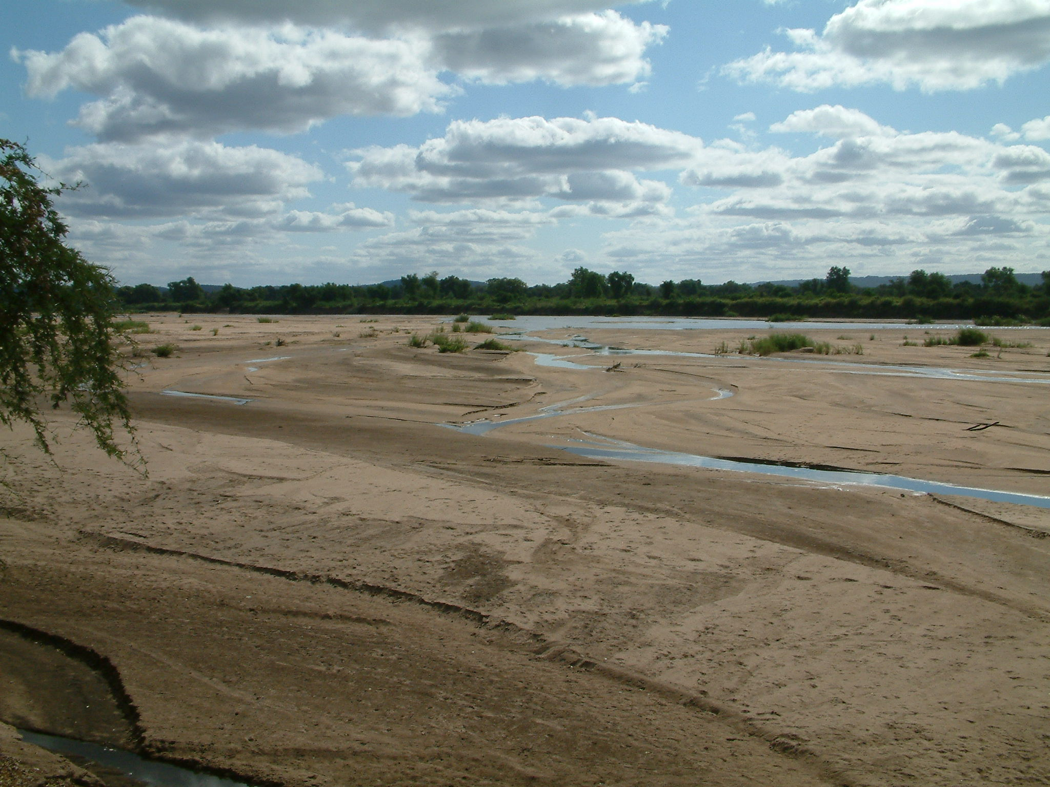 Limpopo River. Photo from Lee Berger's Lanner Gorge expedition.